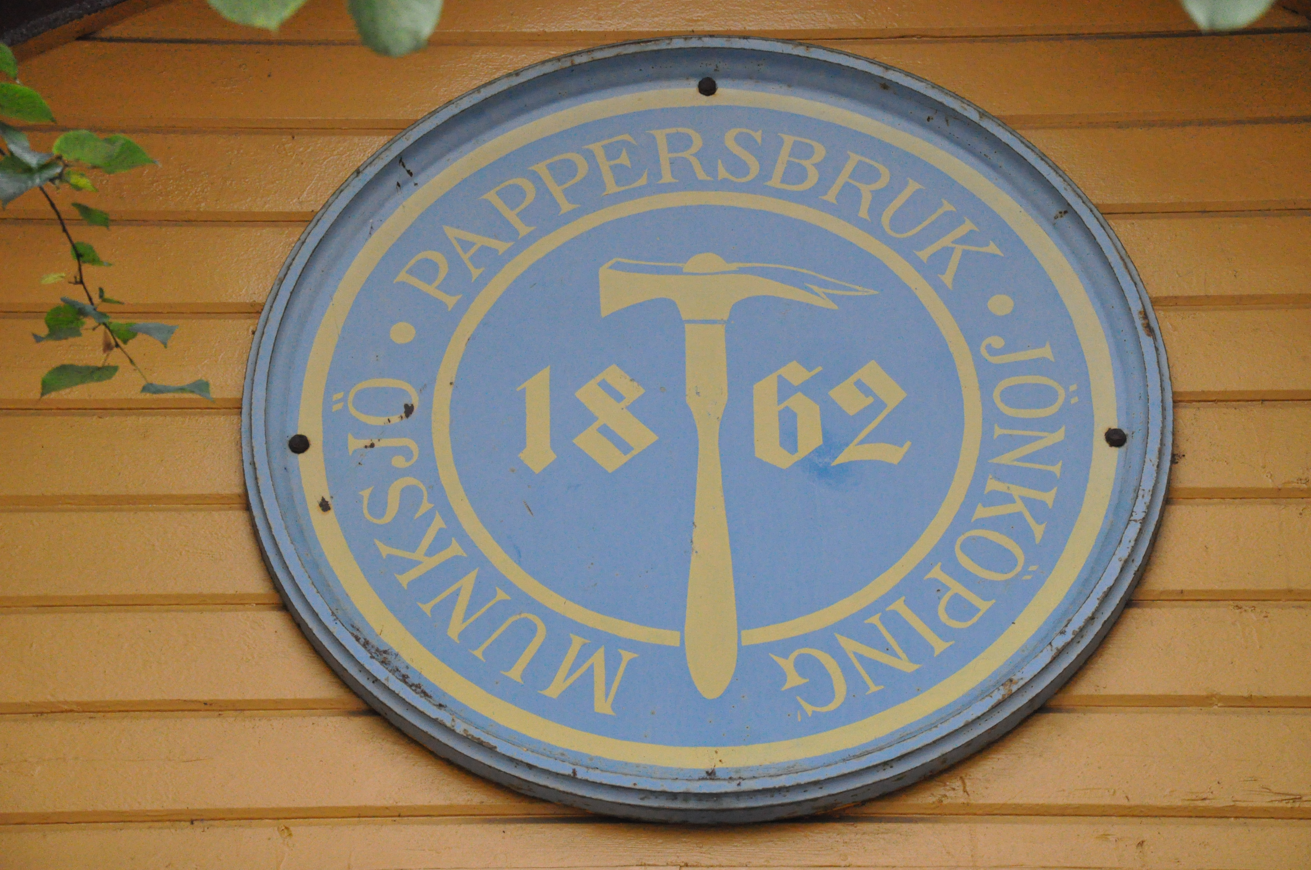 Munksjö AB, Jönköping, Sign at HQ, Barnarpsgatan, Jönköping